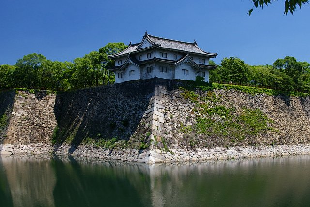 Inui Yagura, Osaka Castle, Osaka City, Japan